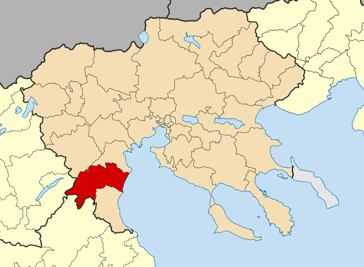 Locator map for Katerini municipality in Greek region Central Macedonia (2011)